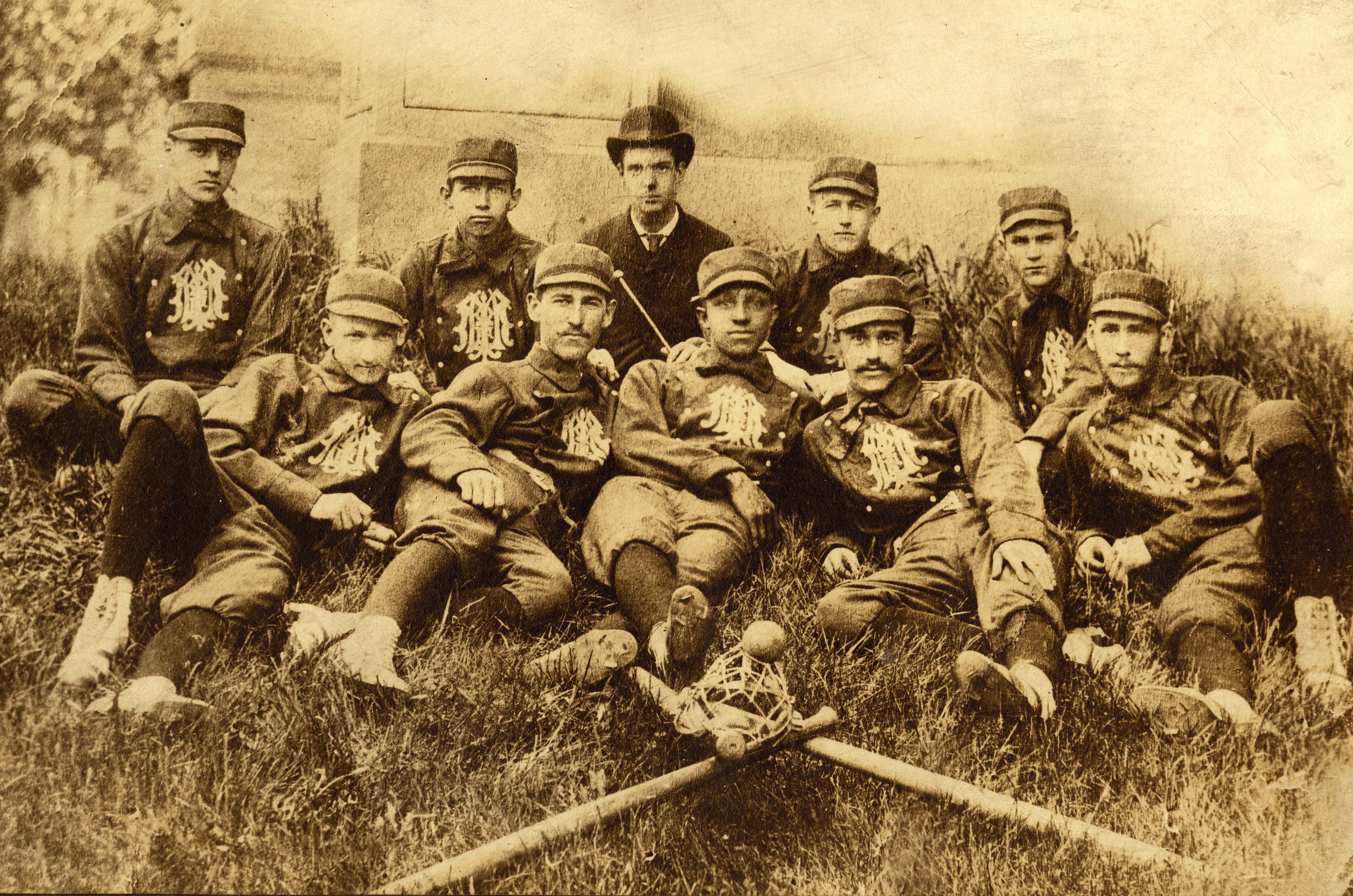 1883 University of Michigan baseball team.Top row: Charles A. Hueber (pitcher, 2nd base), Henry Ernest Montgomery (catcher), manager Metcalfe, A. E. Miller, Lincoln McMillan (right field)Front row: William D. Condon (pitcher, left field), Charles G. Allmendinger (captain and shortstop), Weldy W. Walker (3rd base), Arthur P. Packard (pitcher), Charles H. Blackburn